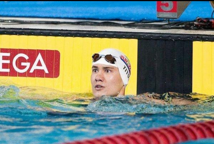 Swimmer Marcus Titus in pool